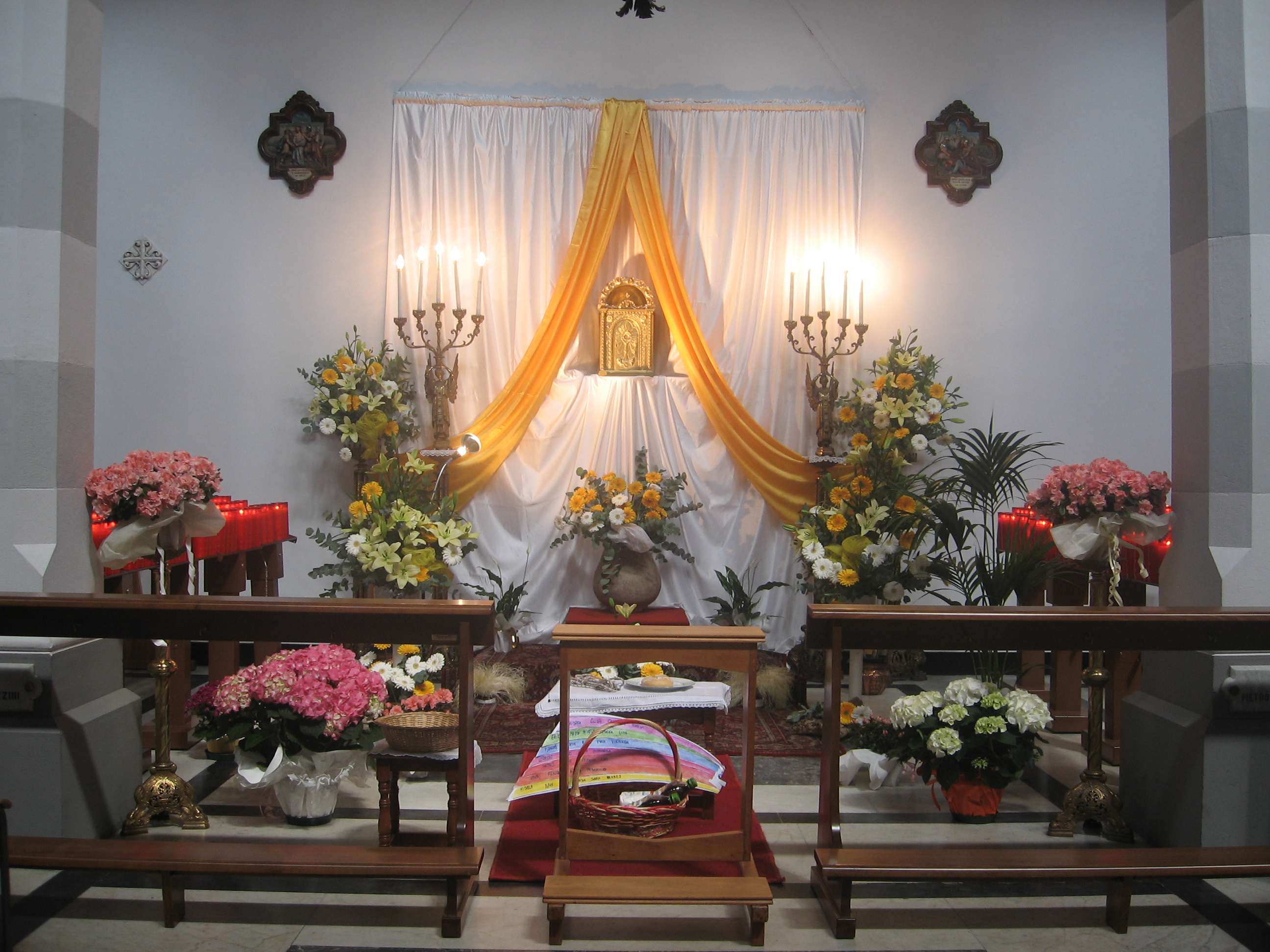 The Altar of Repose made in 2009 Holy Week in St. Joseph's Parish at Lagaccio, Genoa, Italy.